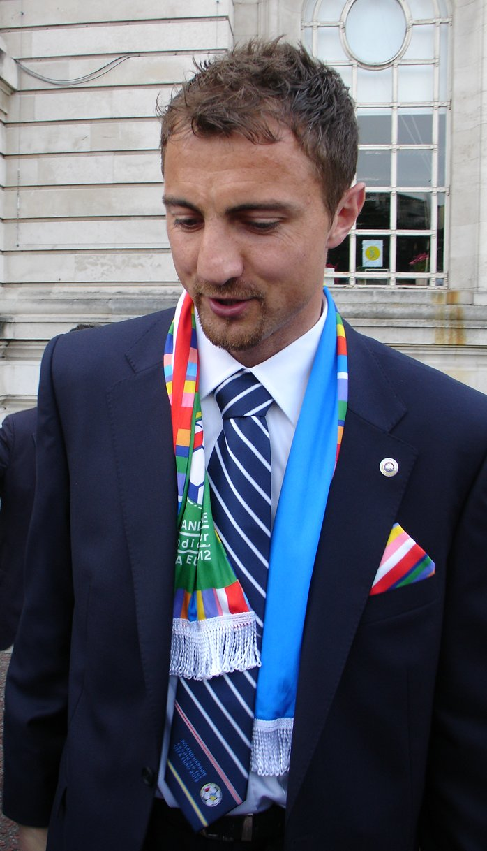 Jerzy Dudek, Polish footballer